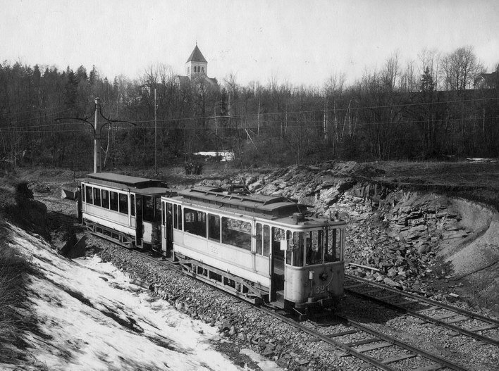 KES Class SS tram 323 on the Lilleaker Line near Bekkefaret.